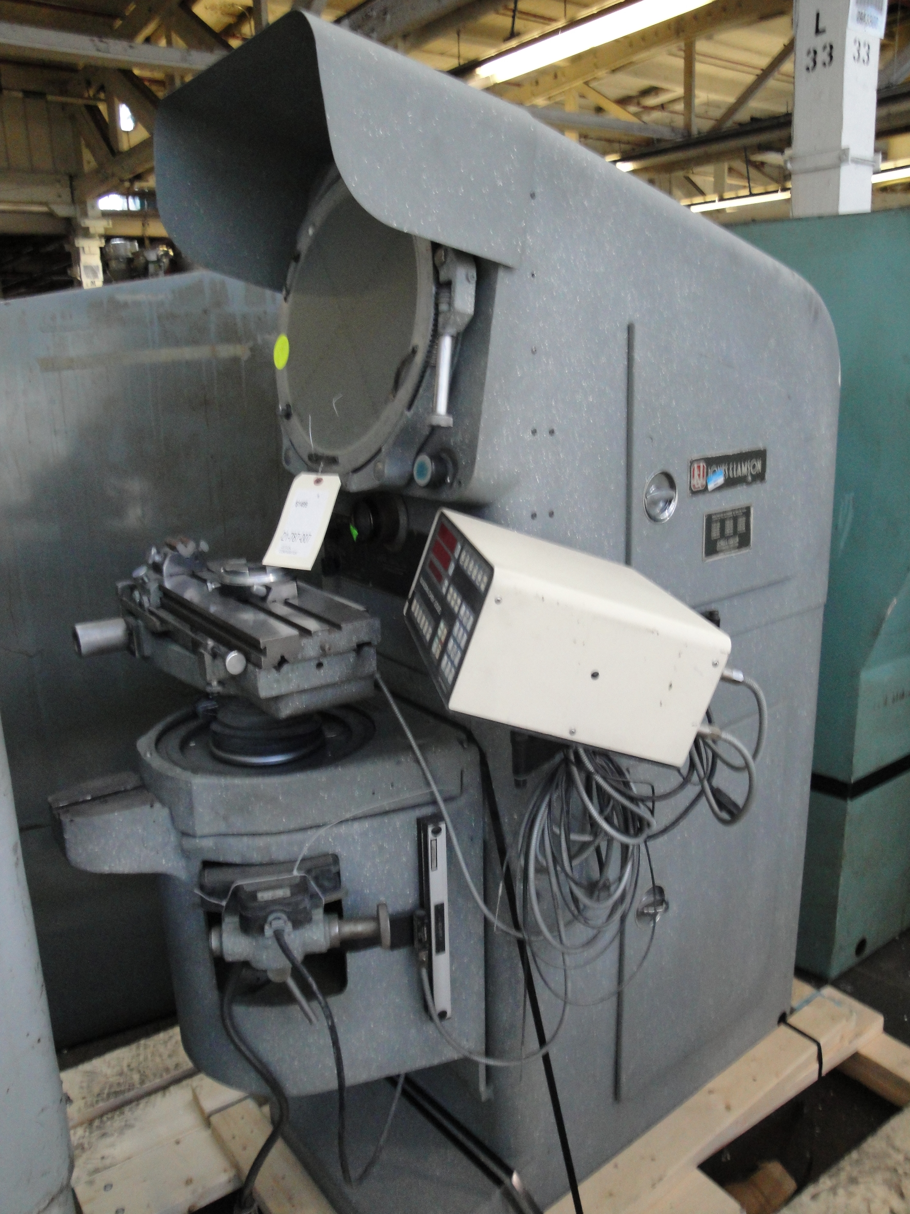 An optical comparator with DRO (digital readout). Jones & Lamson brand.